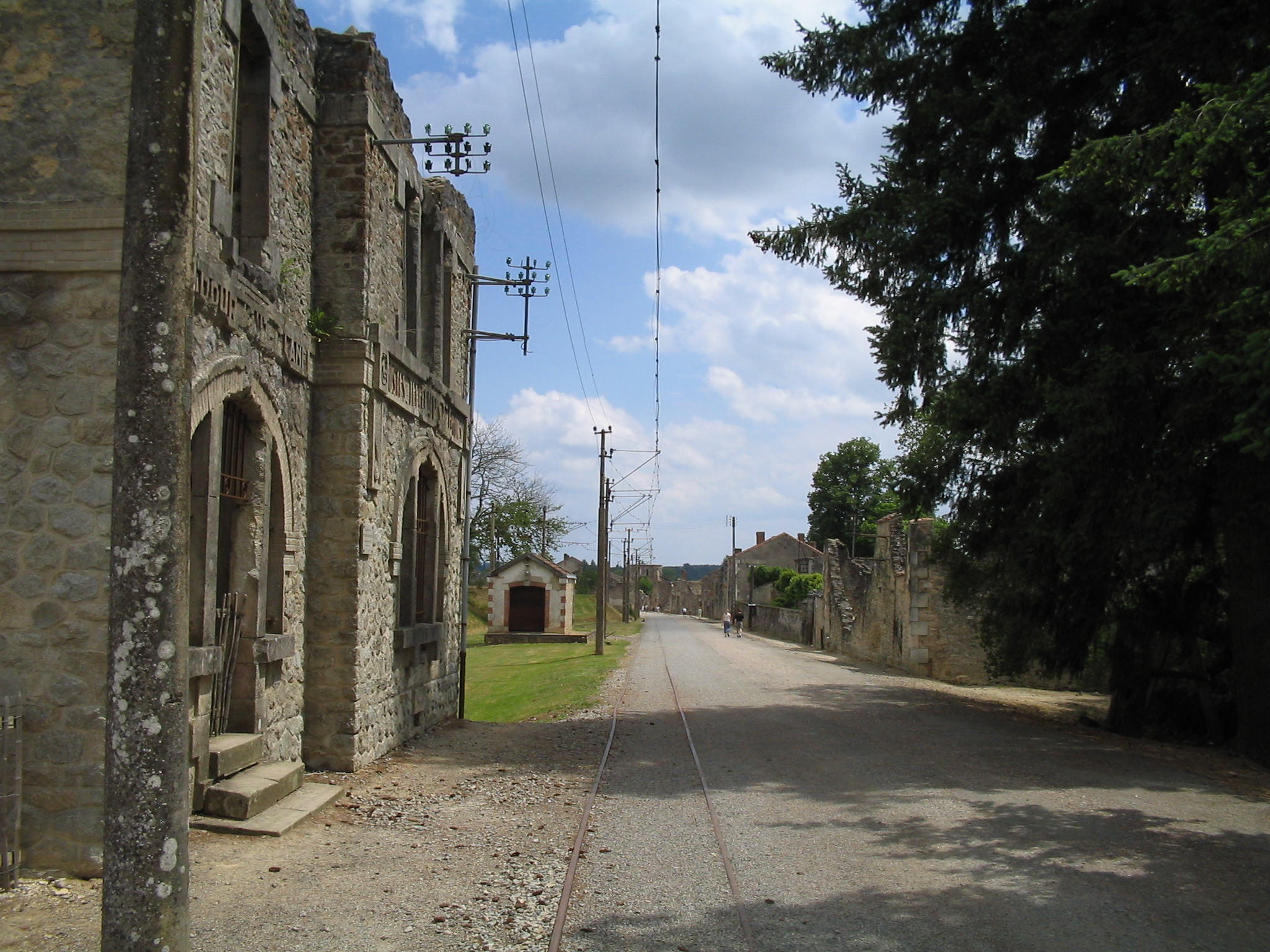 The main street of Oradour-sur-Glane (Haute-Vienne, Limousin, France), with the post office to the left. As you can see on this image, the village is quite big. This is a photograph which I took during a visit on June 11 2004, exactly 60 years after its destruction by the German army during World War II.